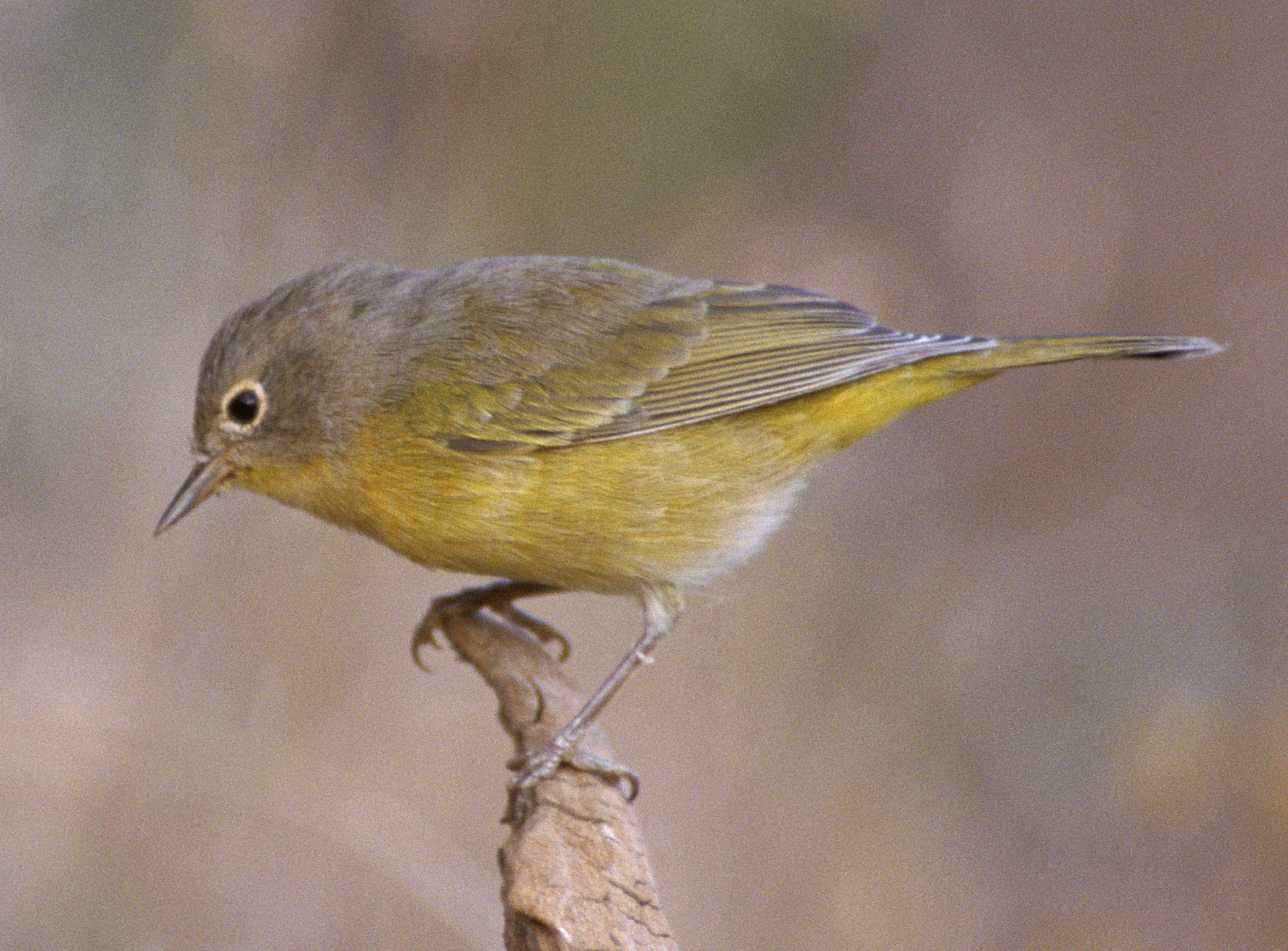 A Nashville Warbler near Upper Klamath Lake in Winema National Forest, Oregon